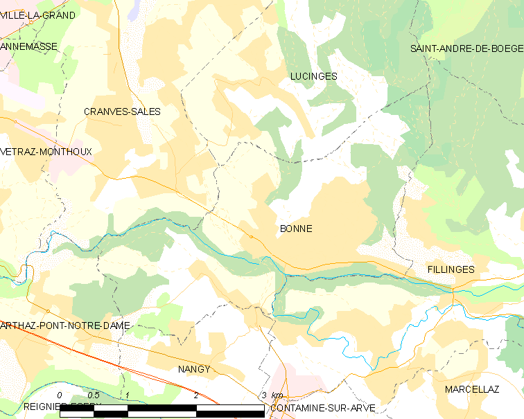 Map of French municipality Bonne